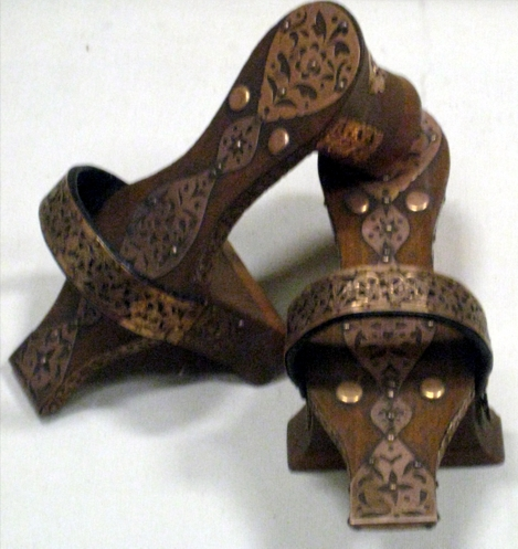 Ancient turkish shoes for bathes.